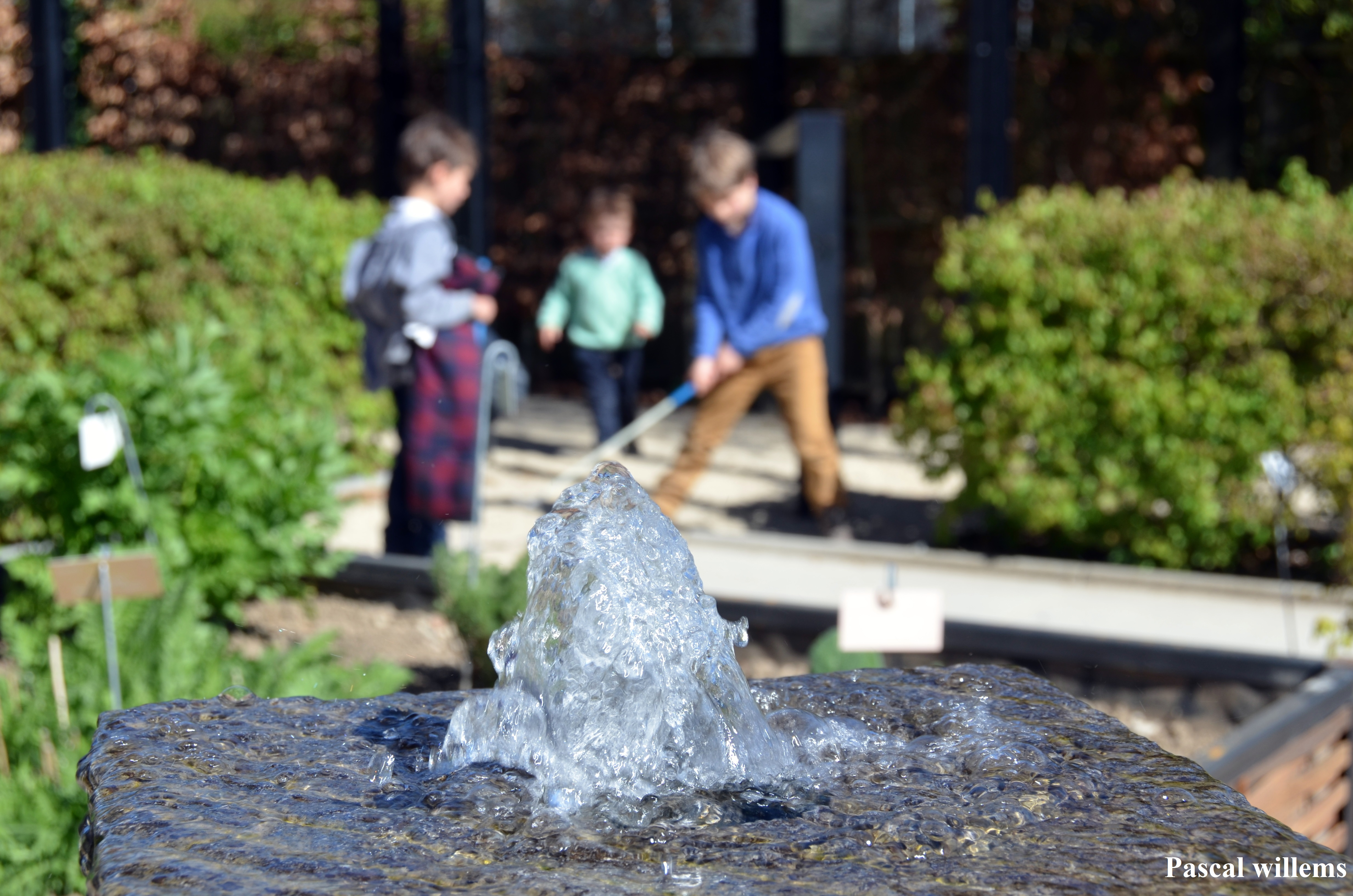 Mini golf de riveo